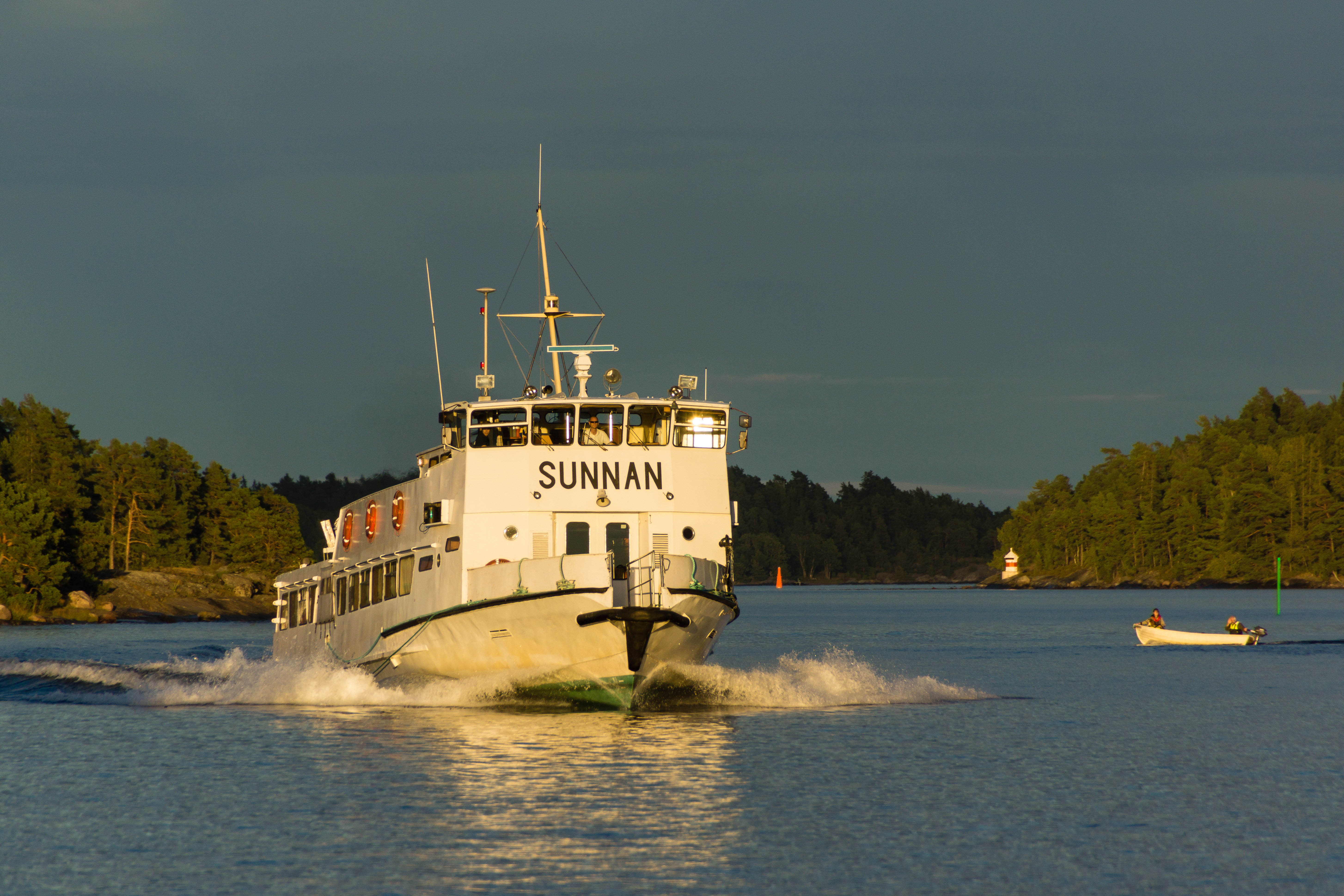 M/S Sunnan near the island Puttisholmen in Stockholm archipelago a beautiful evening in the beginning of September. This is an image of the protected Swedish ship M/S Sunnan, with call sign SIAG .